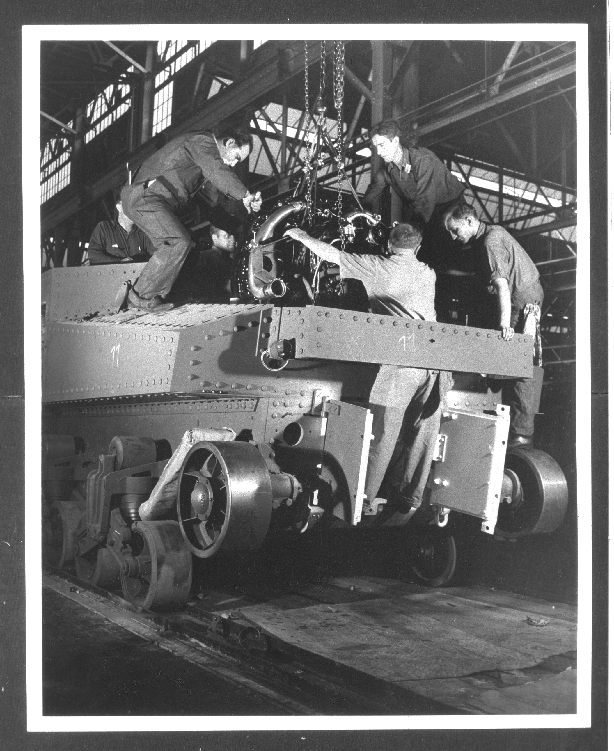 Installing the power plant is a ticklish operation. These workers are lowering a 400-horsepower Wright Whirlwind aviation engine into an M-3 tank and they are taking care to insure that each fitting and connection may be made within a few seconds after the motor has been placed in the tank.